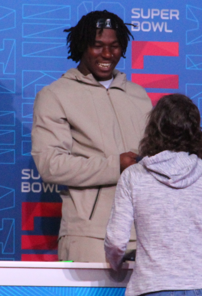 Jamaal Williams at the Super Bowl LIII fan experience